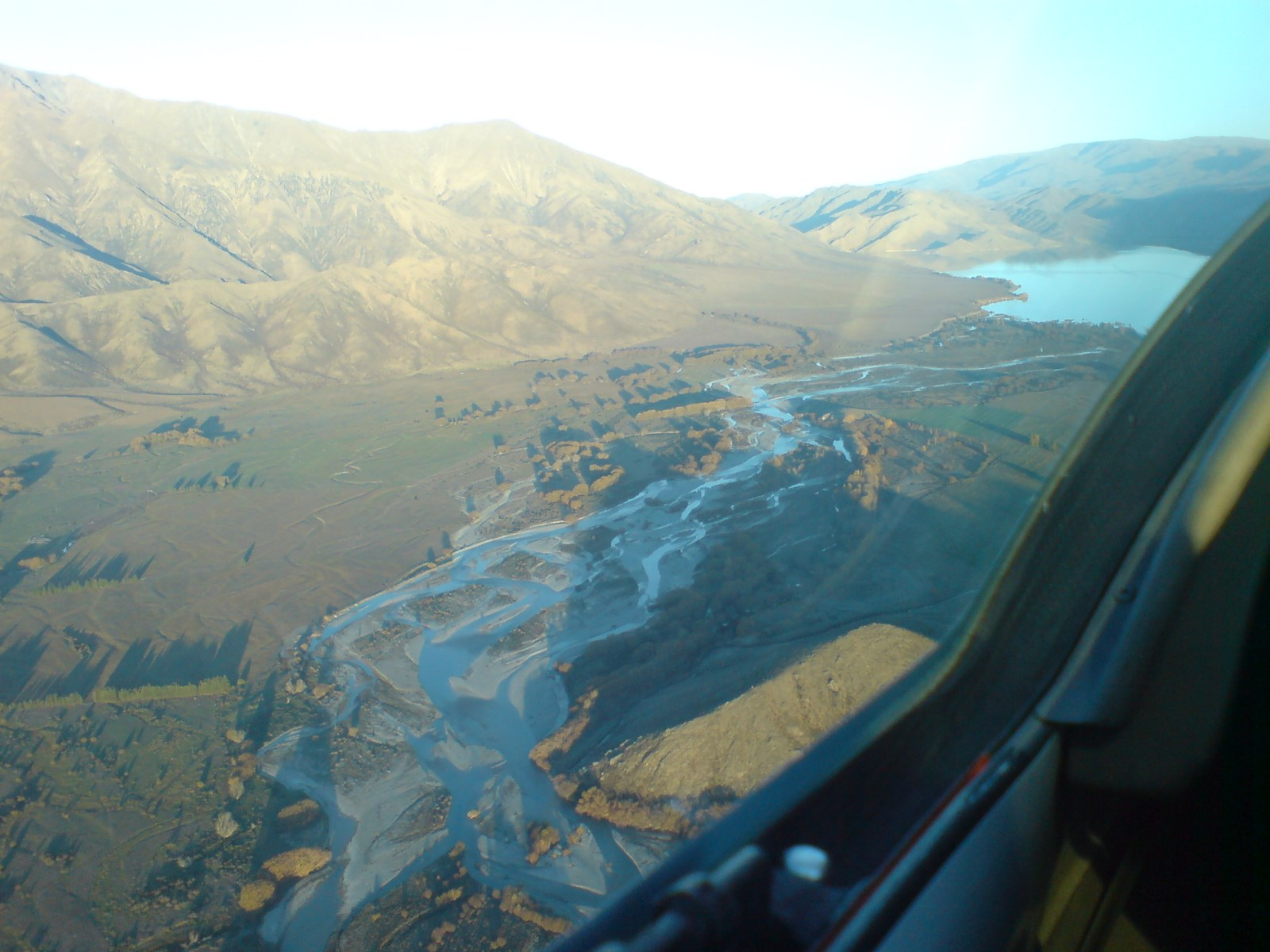 Looking eastwards over the Ahuriri River in New Zealand. Coordinates aren't particularly exact.